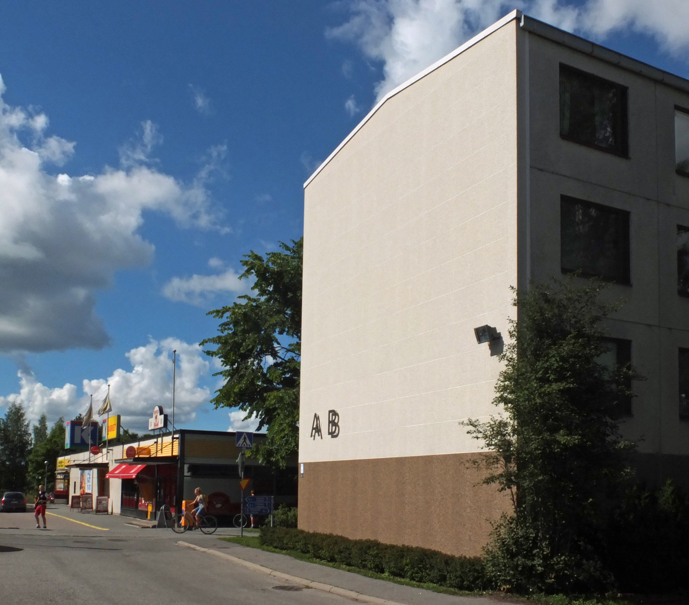 Street view of Härkämäki, a western suburb of Turku, Finland.